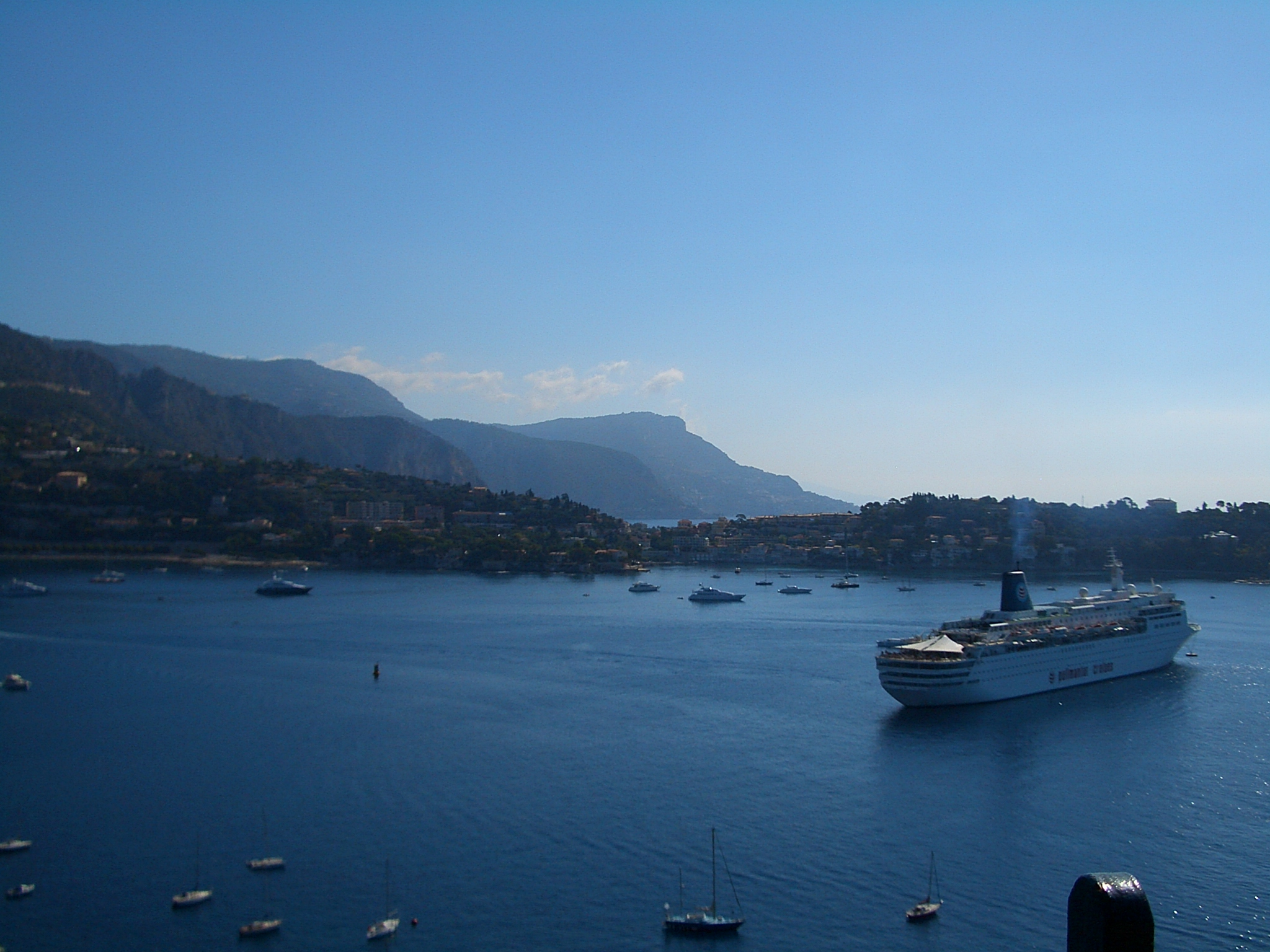 The harbor of Villefranche-sur-Mer, with cruise ships